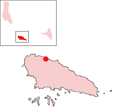 Mbatsé, Mohéli, Comoros Location Map; created with the GIMP. Made by User:Acntx.